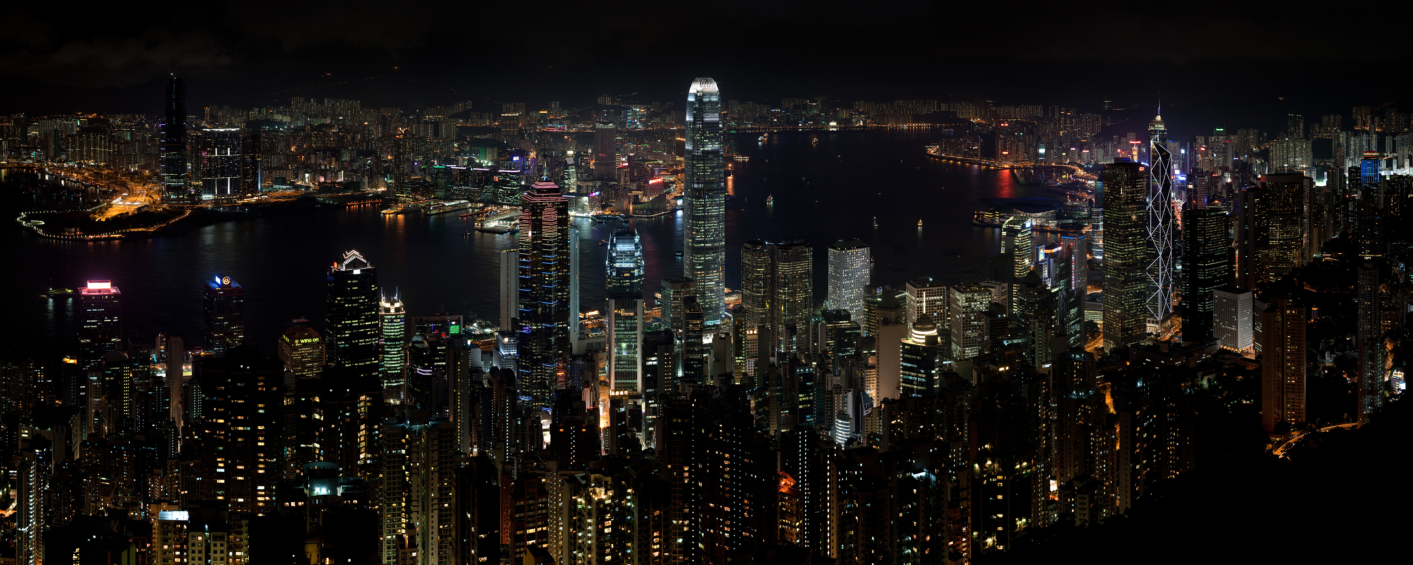 Panorama of Hong Kong night skyline. Taken from Lugard Road at Victoria Peak.